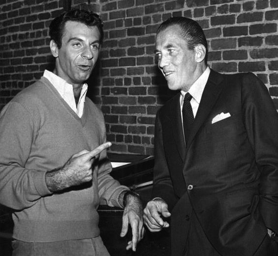 Photo of Mort Sahl and Ed Sullivan from an Ed Sullivan television special "See America With Ed Sullivan".